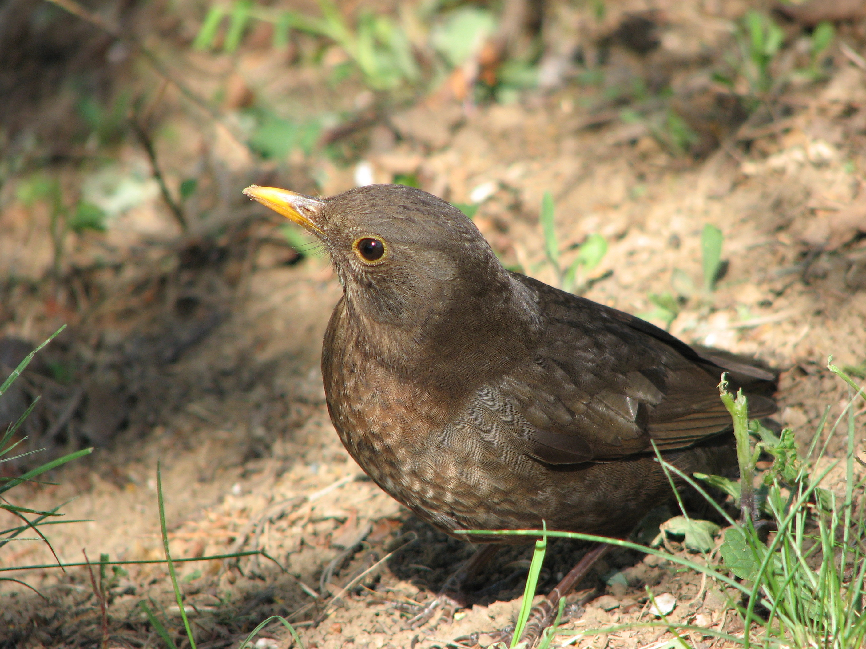 A young blackbird